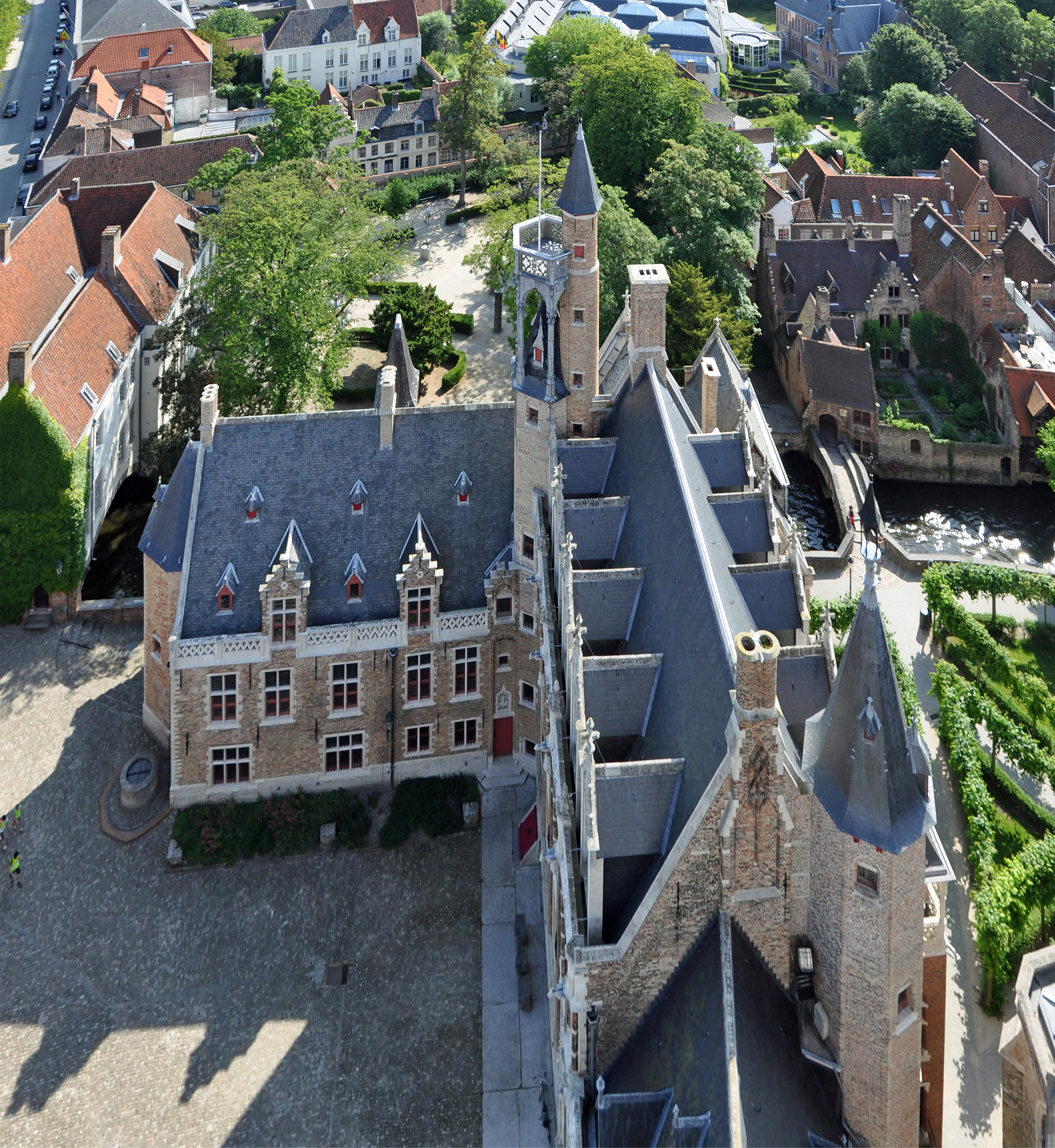 Bruges (Belgium): the Gruuthuse mansion, now Museum